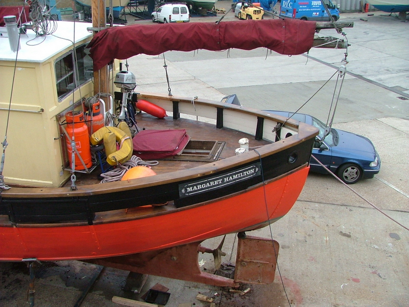 stern of the Margaret Hamilton